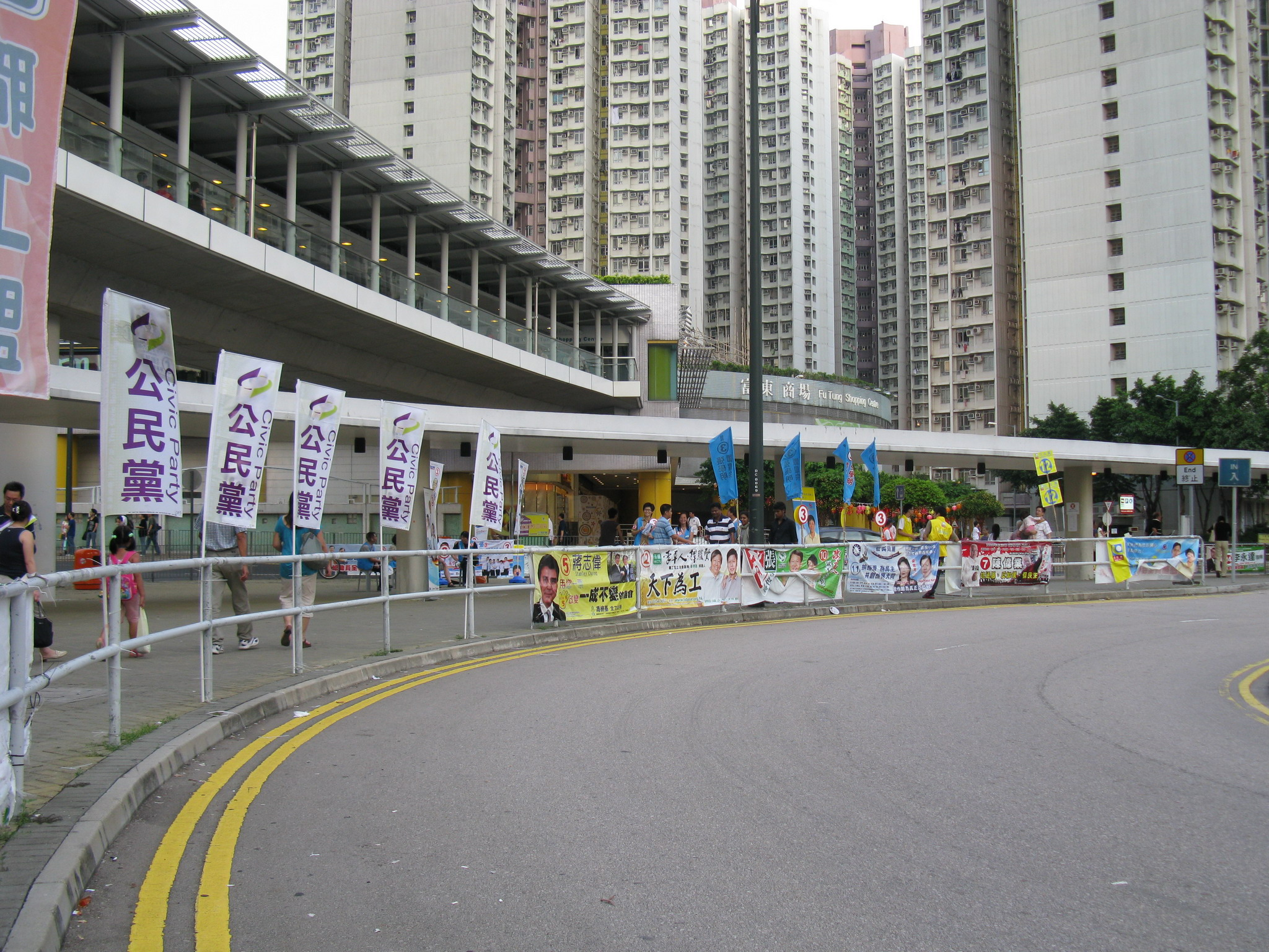 2008 Legislative Council Election New Territories West Geographical Constituency